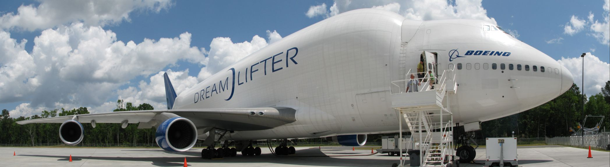 Panorama of the Boeing 747 Dreamlifter cargo plane.